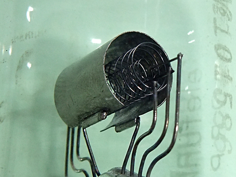 Internal construction of Telefunken RE20 tetrode from 1920